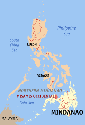 Map of the Philippines showing the location of Misamis Occidental